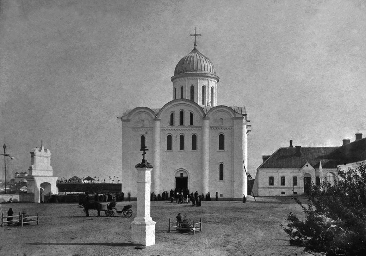 Cathedral of the Dormition of the Theotokos in Volodymyr.